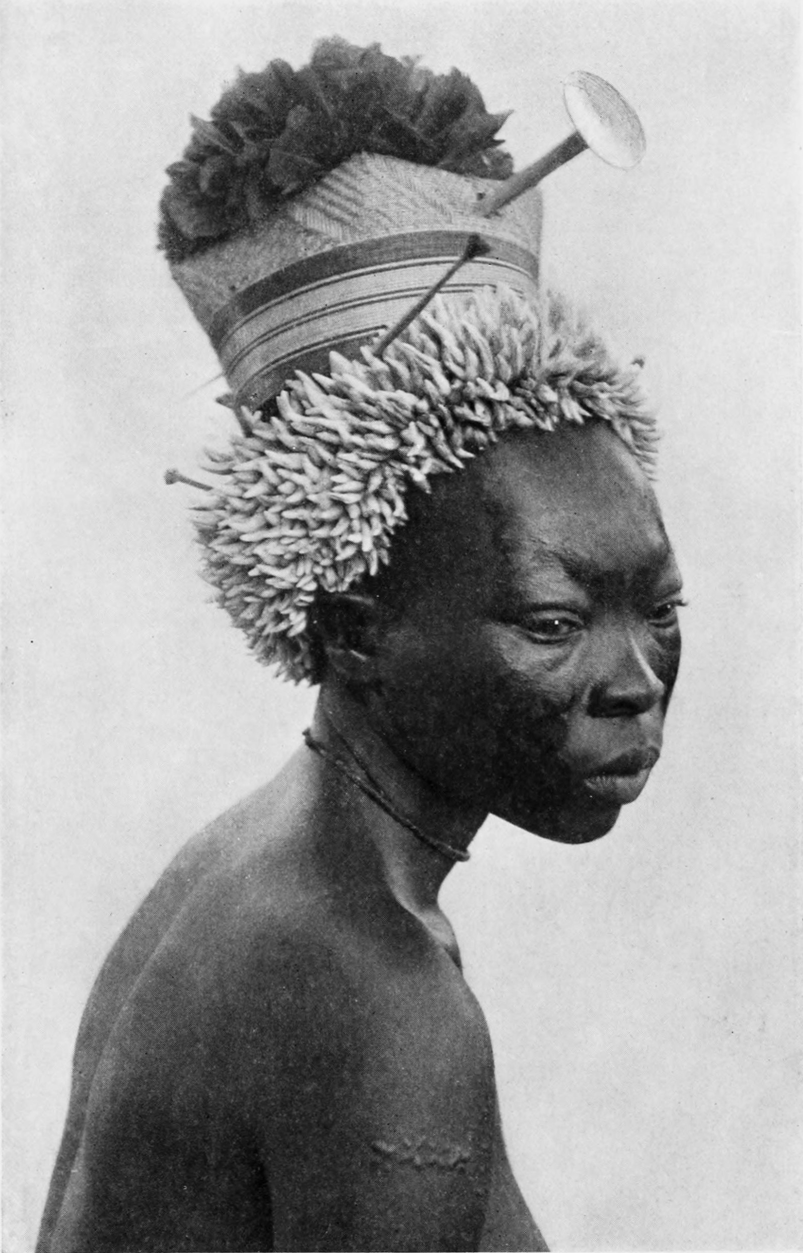 Head wife of Chief Abiembali: Mayogo Tribe, Ituri District. Beneath the small, square-topped hat of woven vegetable fiber, she wears a sort of skull-cap adorned with hundreds of dogs' teeth, mostly canines. The crown of the hat is decorated with the red tail-feathers of the African gray parrot, which bird is often kept in captivity so that the much prized feathers can be pulled out as fast as they grow. The larger hatpin is made entirely of ivory, while the smaller consists of a thin, pointed bone from the forearm of a monkey.